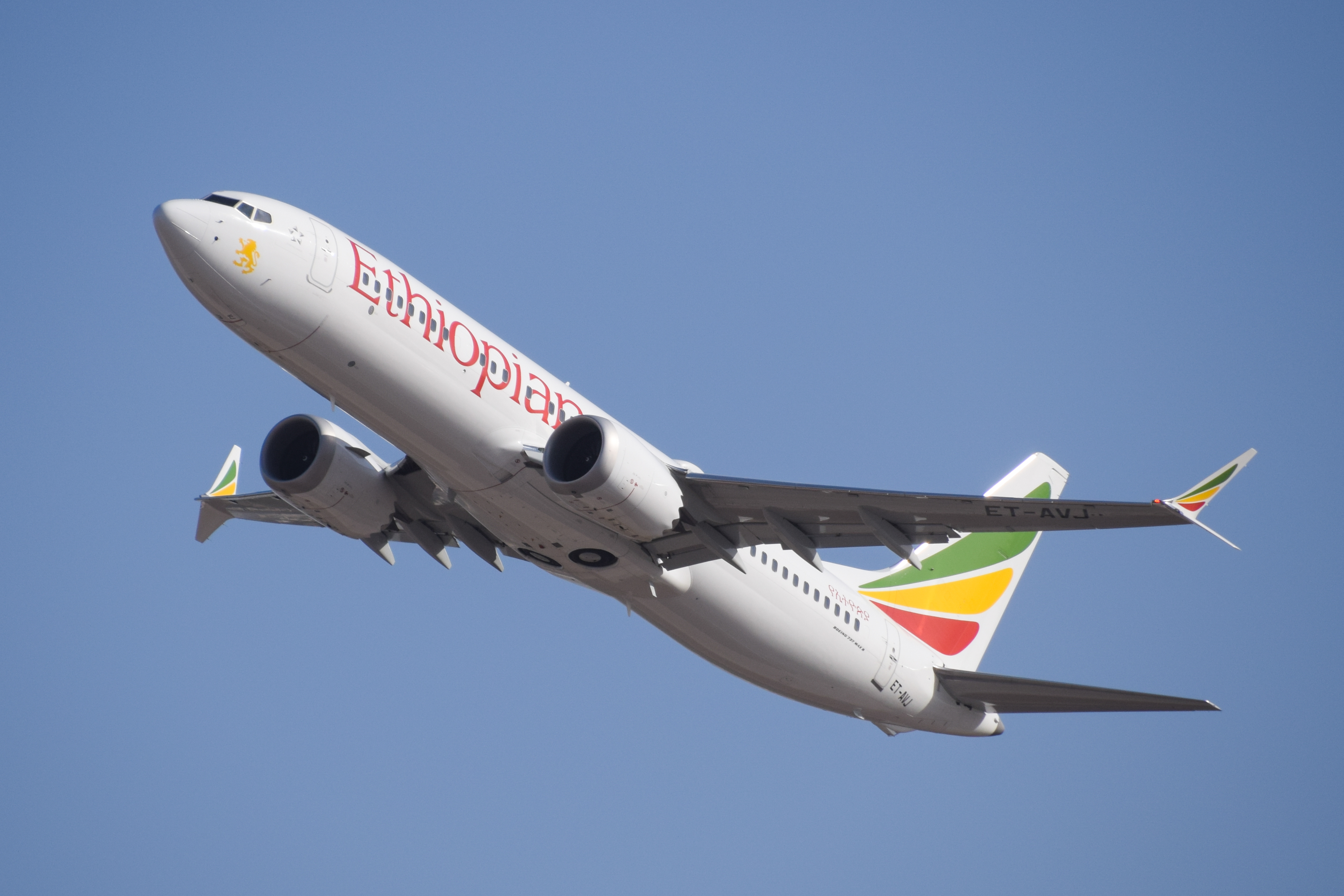 Ethiopian Airlines ET-AVJ takes off from Ben Gurion International Airport, Israel